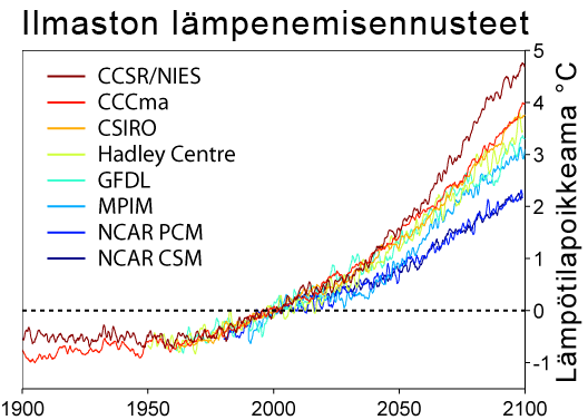 A Finnish version of a graph showing climate model predictions for global warming under the SRES A2 emissions scenario relative to global average temperatures in 2000.